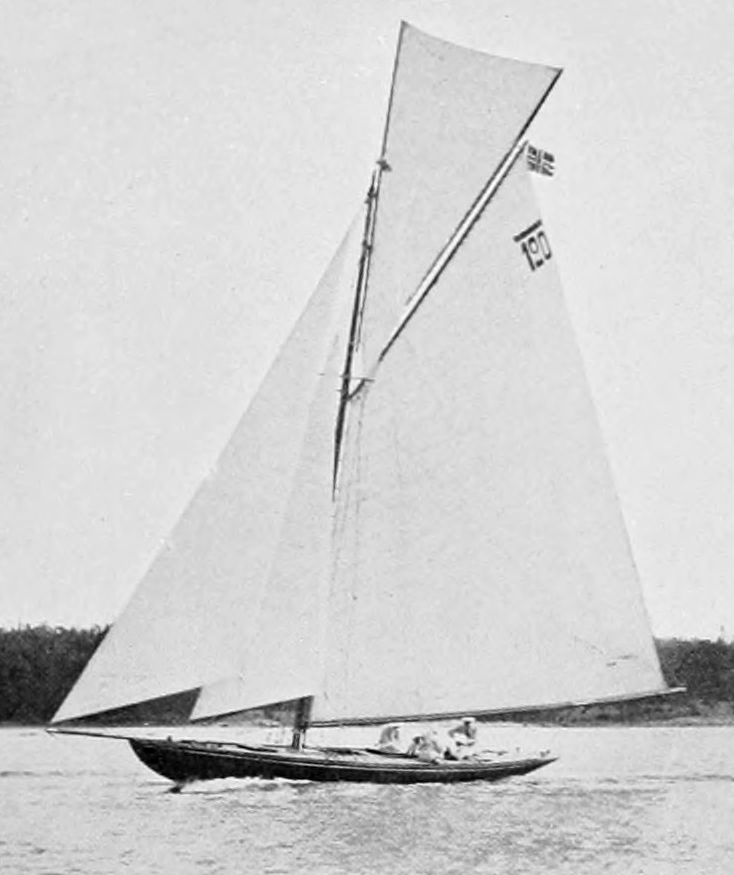 Norwegian 8 m class s/y Taifun. Gold medalist 1912 olympics